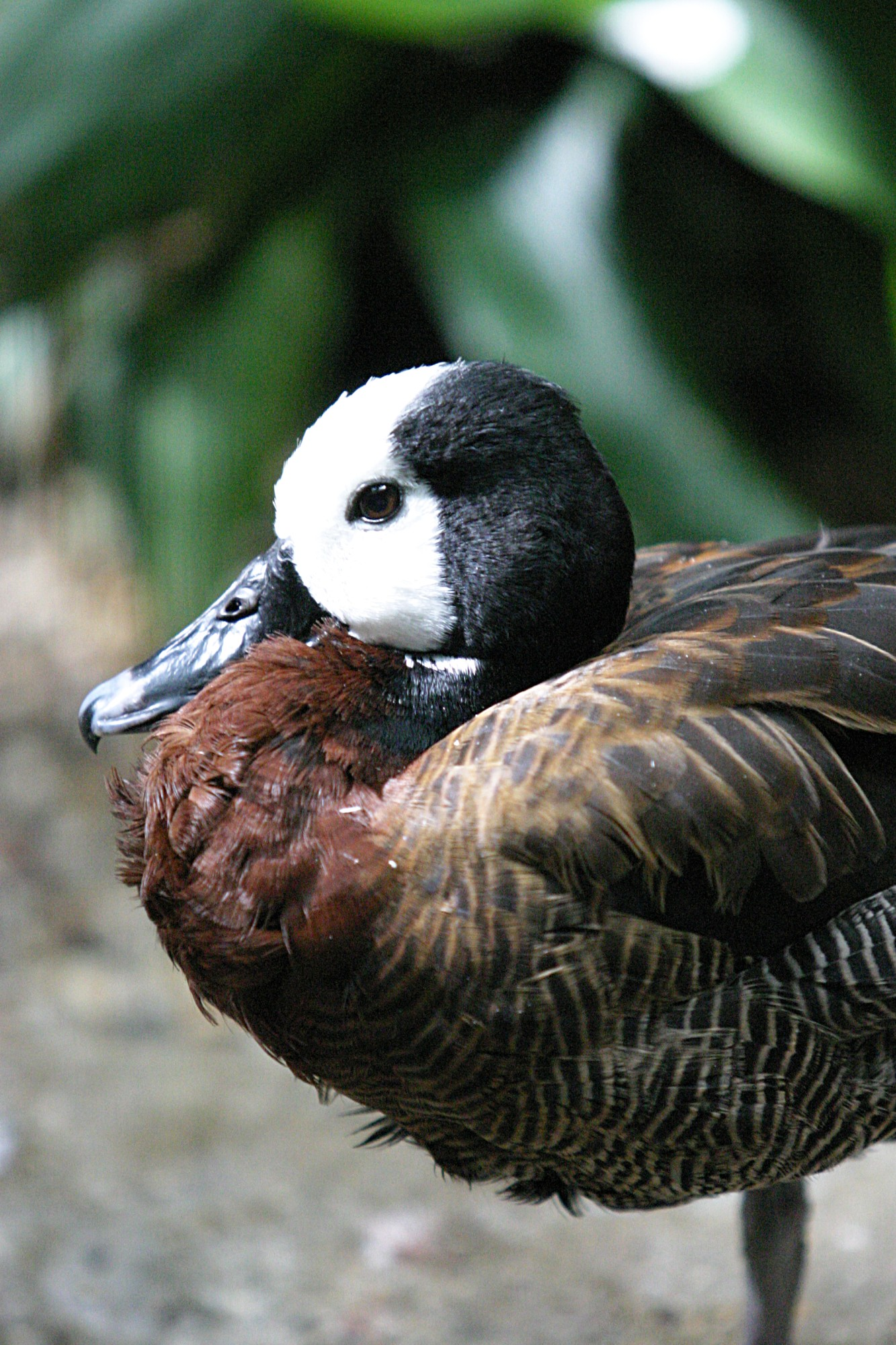 Close-up of a White-faced Whistling Duck at the Milwaukee County Zoological Gardens in Milwaukee, Wisconsin.